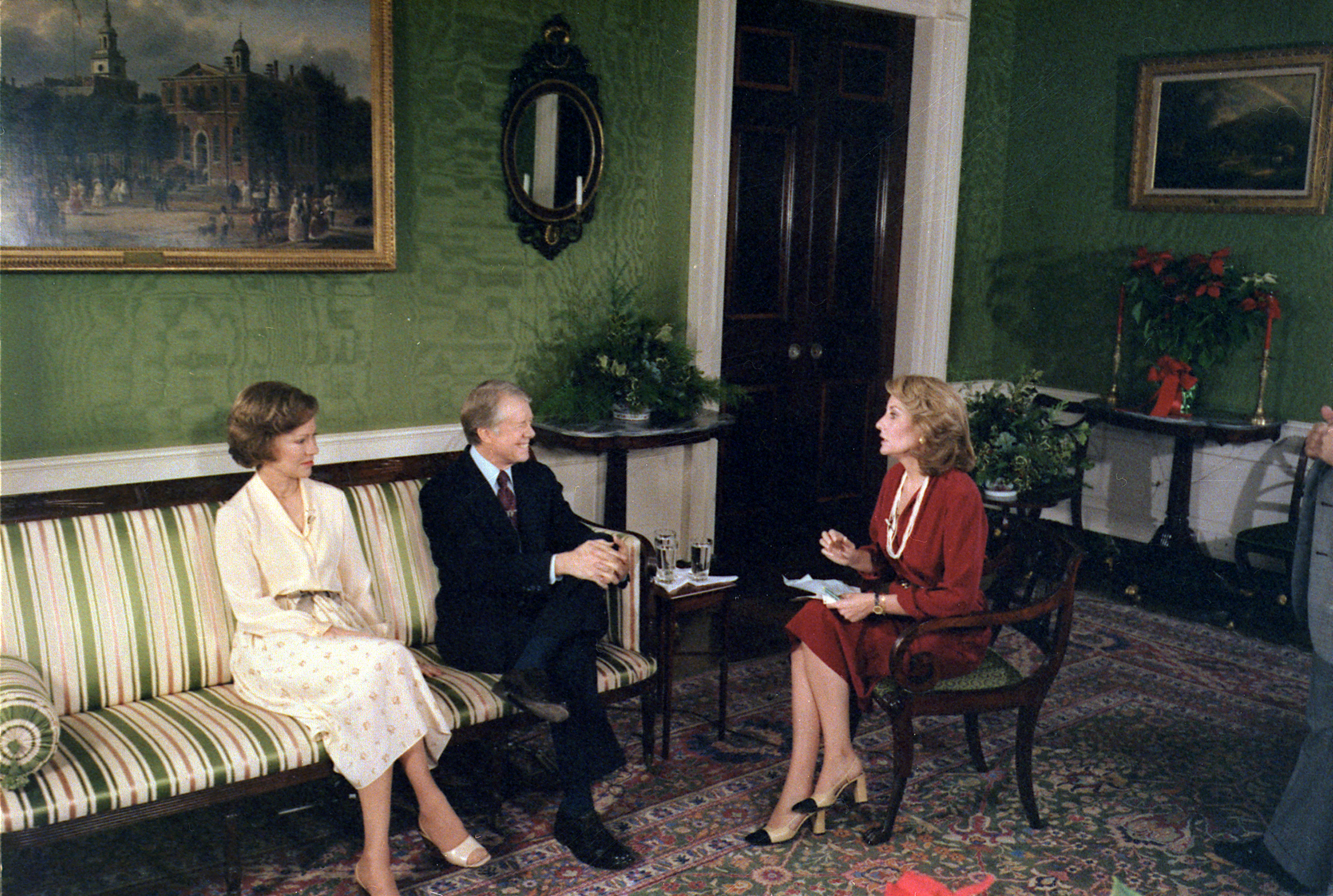 Rosalynn Carter and Jimmy Carter during an interview with Barbara Walters